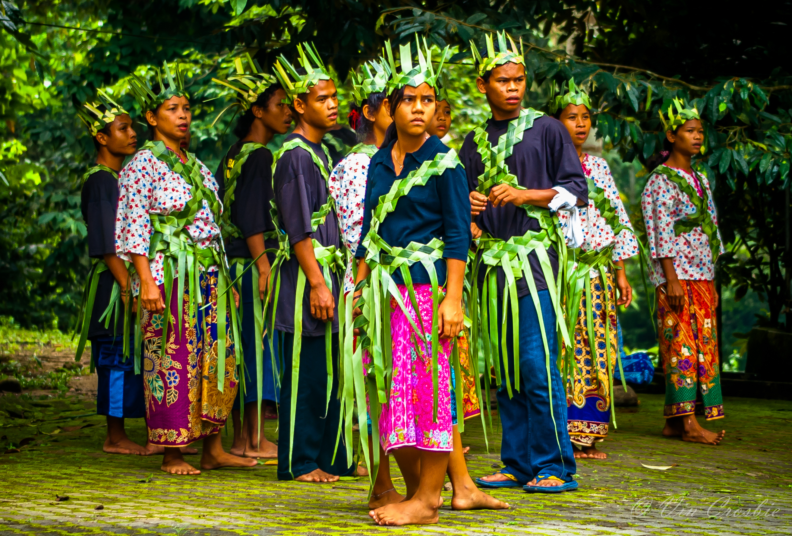 Malaysian aboriginal peoples, Selangor Province, Malaysia. July 2006.